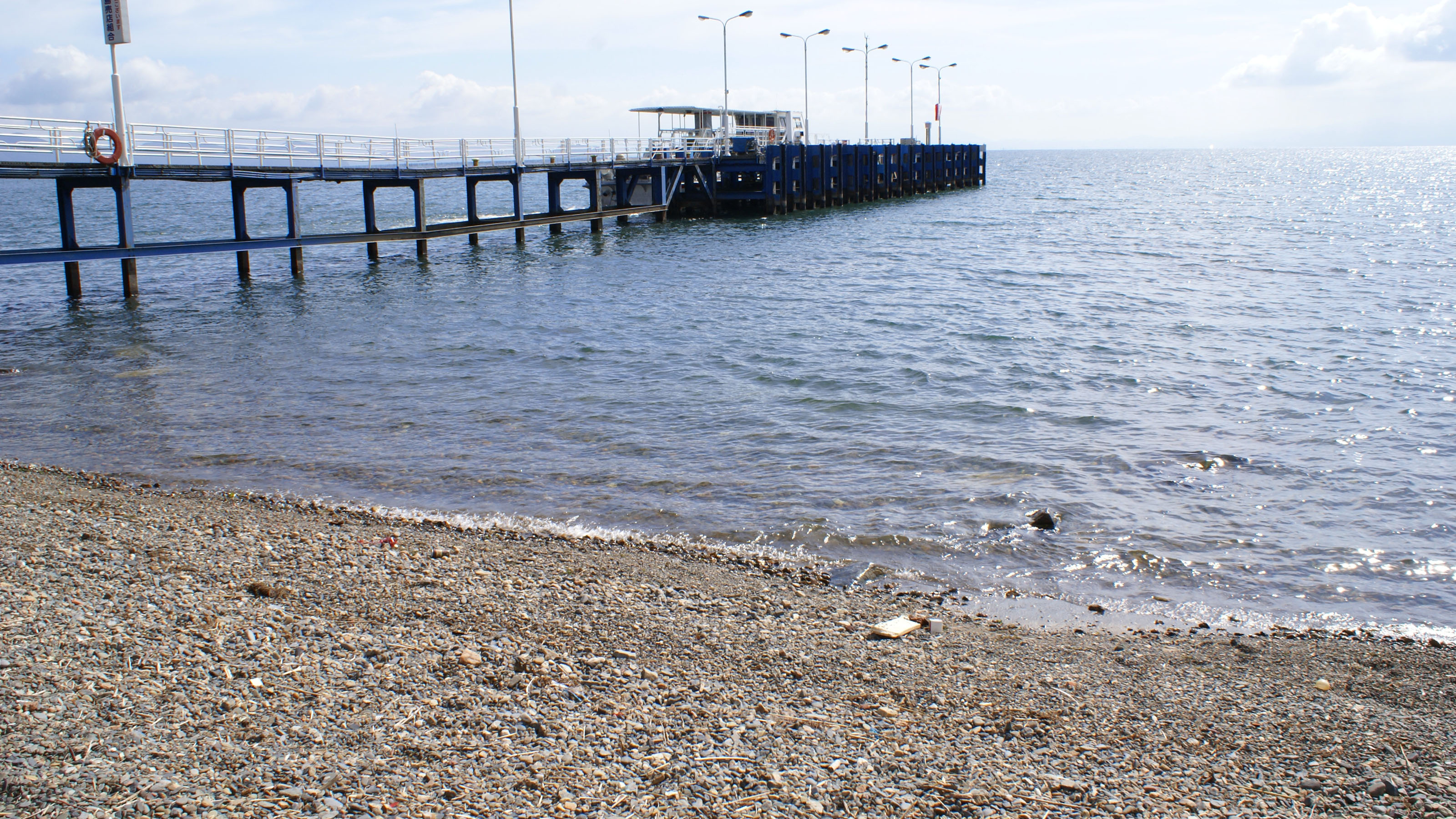 Port of Imazu in Takashima, Shiga, Japan